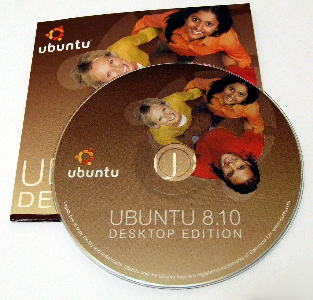 Ubuntu 8.10 CD